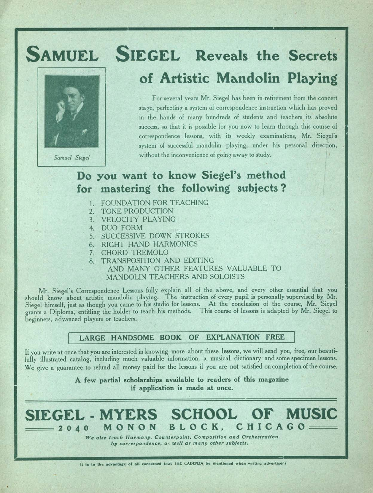 An advertisement from The Cadenza from 1911 for Samuel Siegel's music lessons.